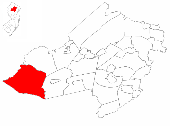 Position of Washington Township (highlighted in red) in Morris County. Morris County's position in New Jersey is in turn highlighted in red.